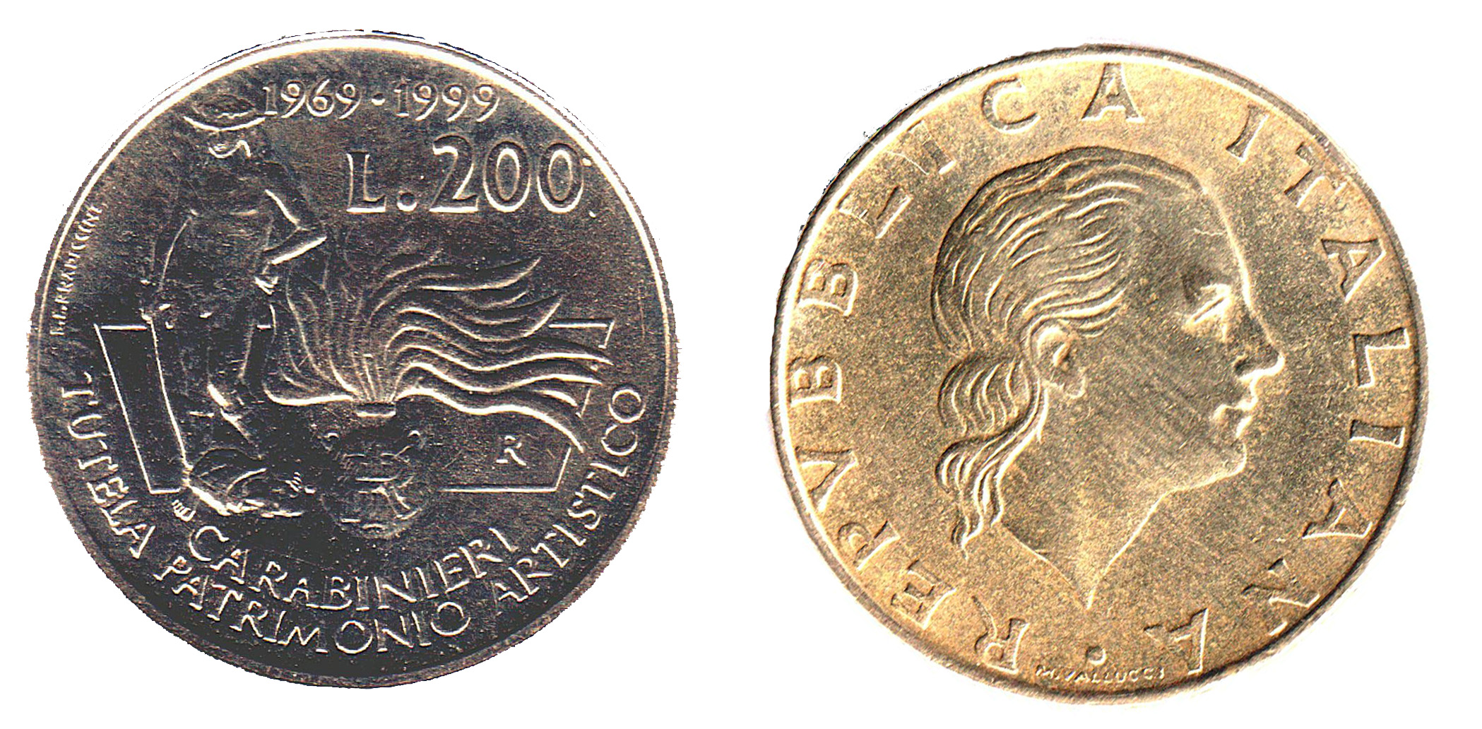 200 lire carabinieri tutela patrimonio